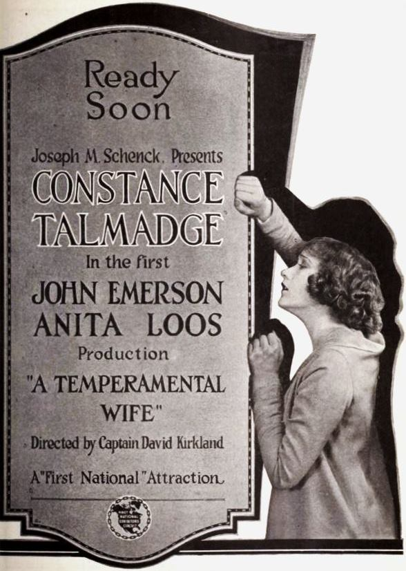 Advertisement for the American comedy romance film A Temperamental Wife (1919) with Constance Talmadge, on page 11 of the August 9, 1919 Exhibitors Herald.